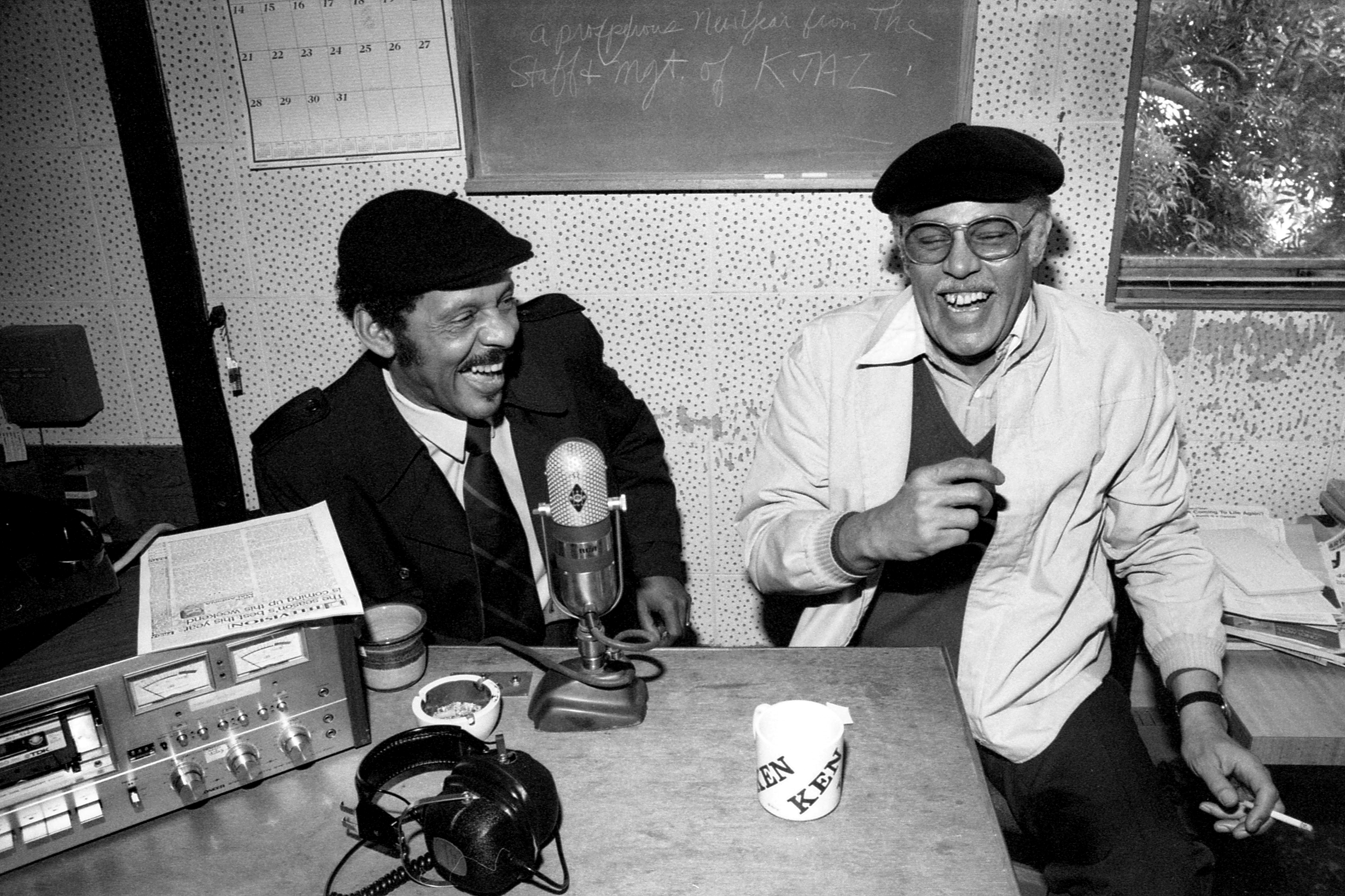 Dexter Gordon, r. & Ernie Andrews, l. at KJAZ radio, Alameda CA December 1980. Photo by Brian McMillen